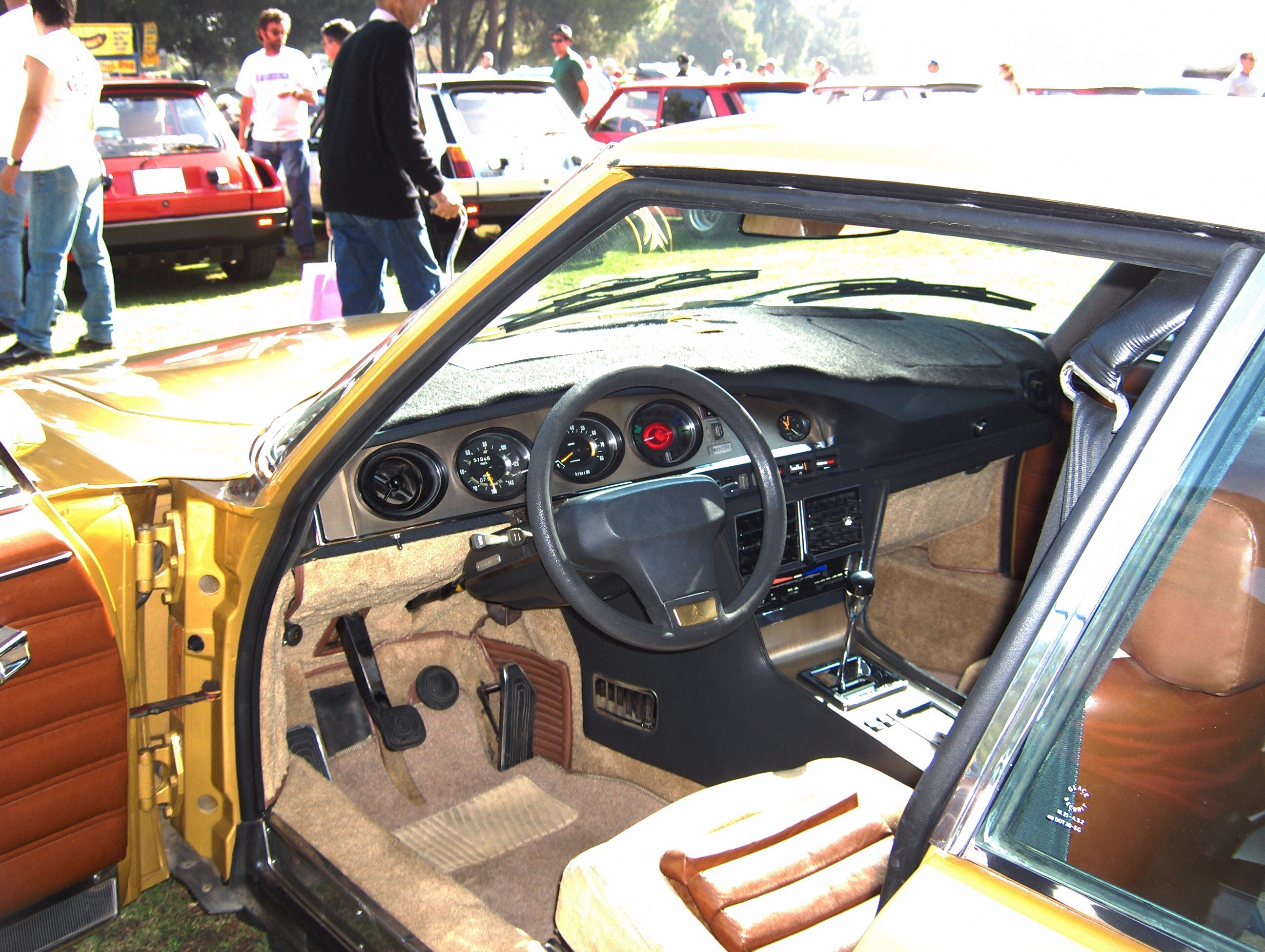 leather